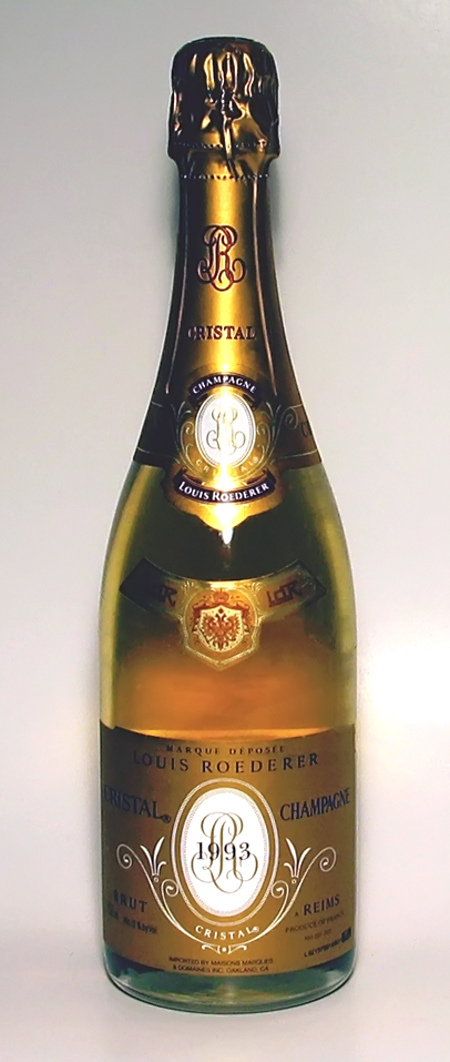 A bottle of Louis Roederer Cristal Champagne (1993).